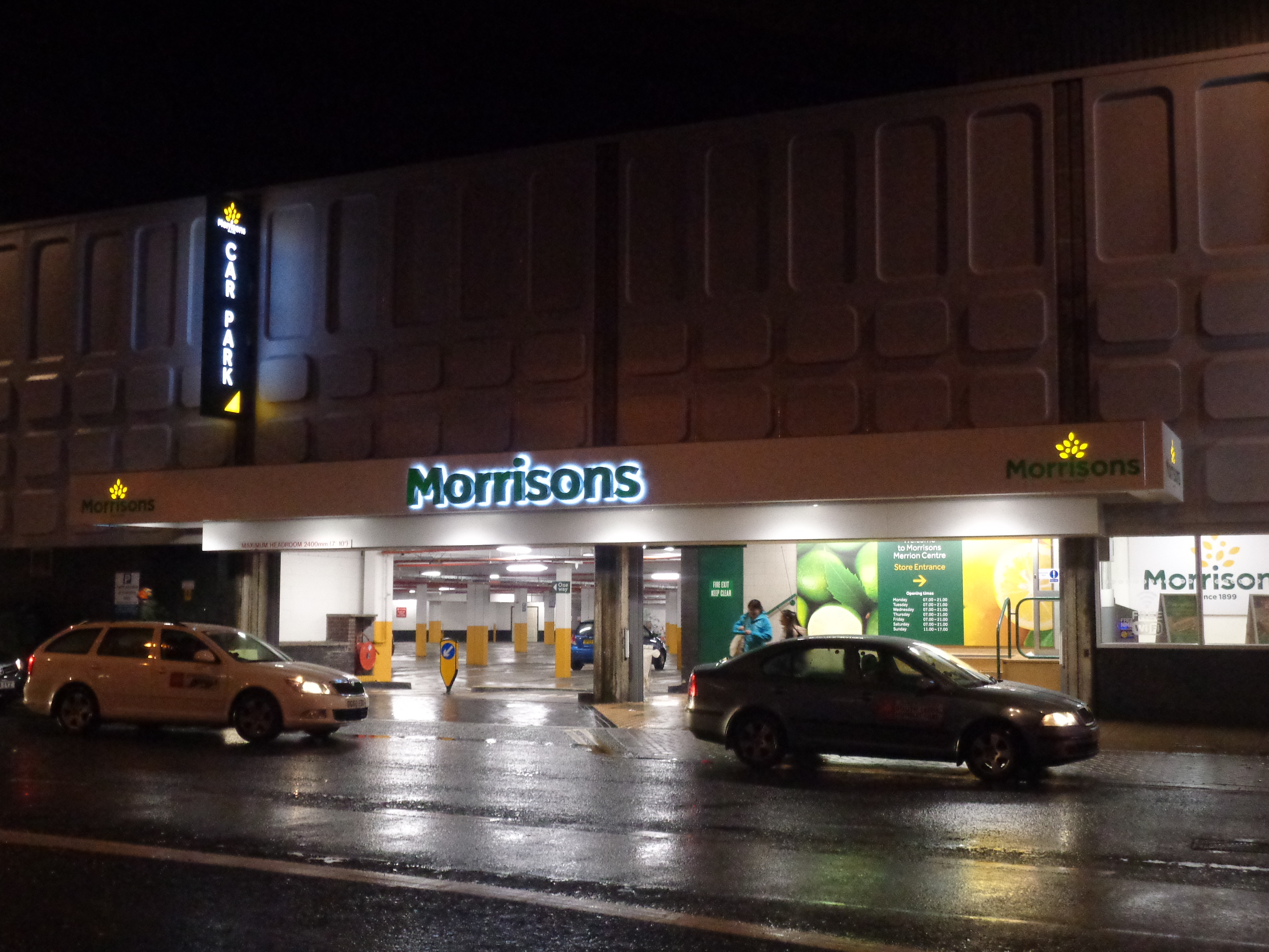 Morrisons, Woodhouse Lane, Leeds, West Yorkshire. This branch is part of the Merrion Centre and appears to be showing new branding and logos (although they do not appear on the Morrisons website or any other branch I know of. Taken on the night of Saturday the 14th of November 2015.